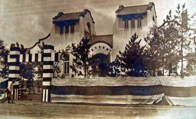 Photo of SMR Mudken Library in 1921 when the build was finished